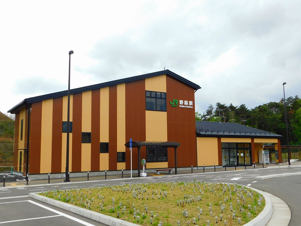 JR East Senseki line Nobiru station